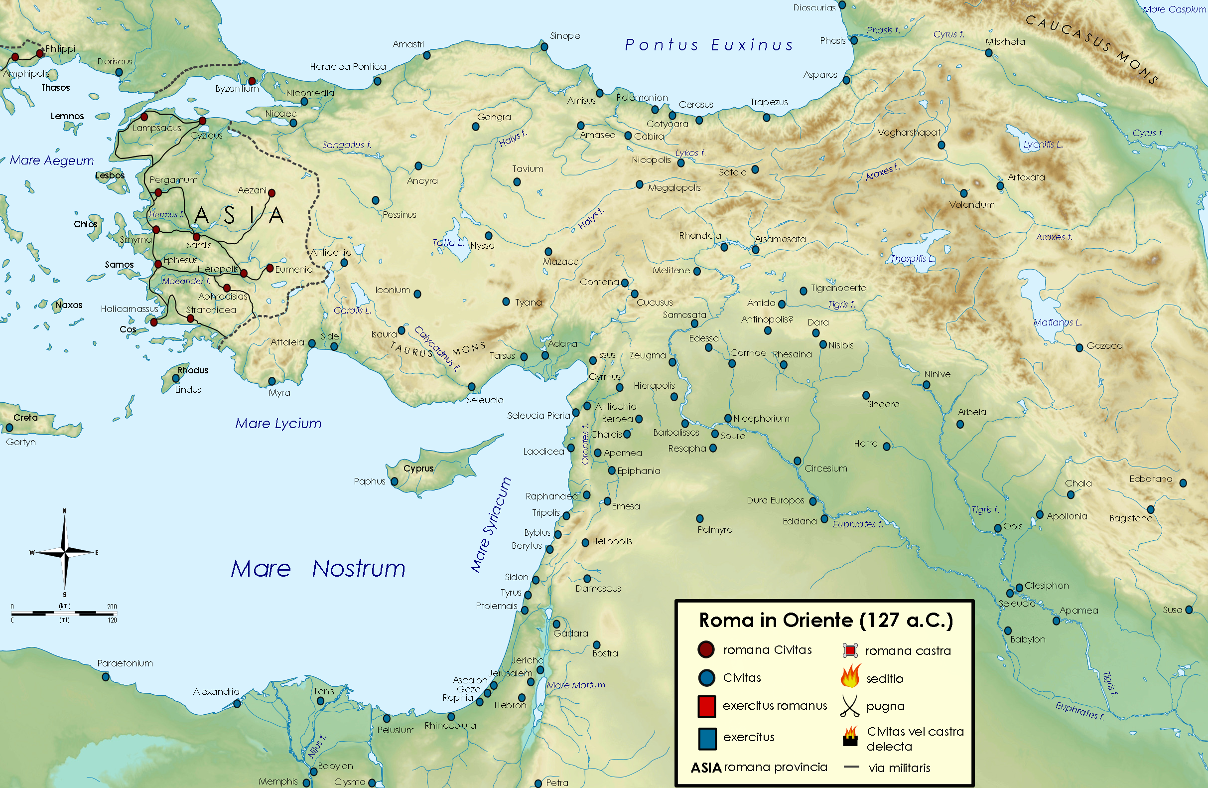 Roman republic in the Near East in 127 B.C., making the first asian province.